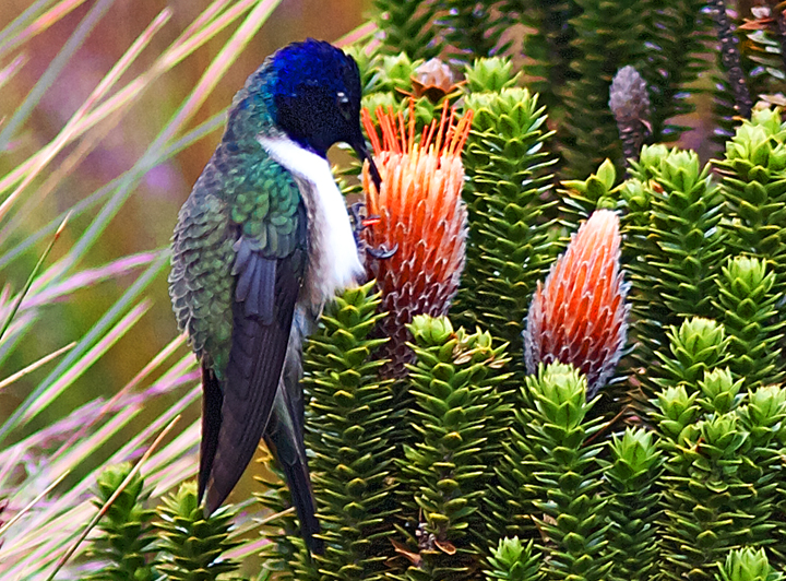 Ecuadorian Hillstar on Chuquiragua flower, taken at Papallacta Pass (Cayambe-Coca Protected Reserve), Ecuador.